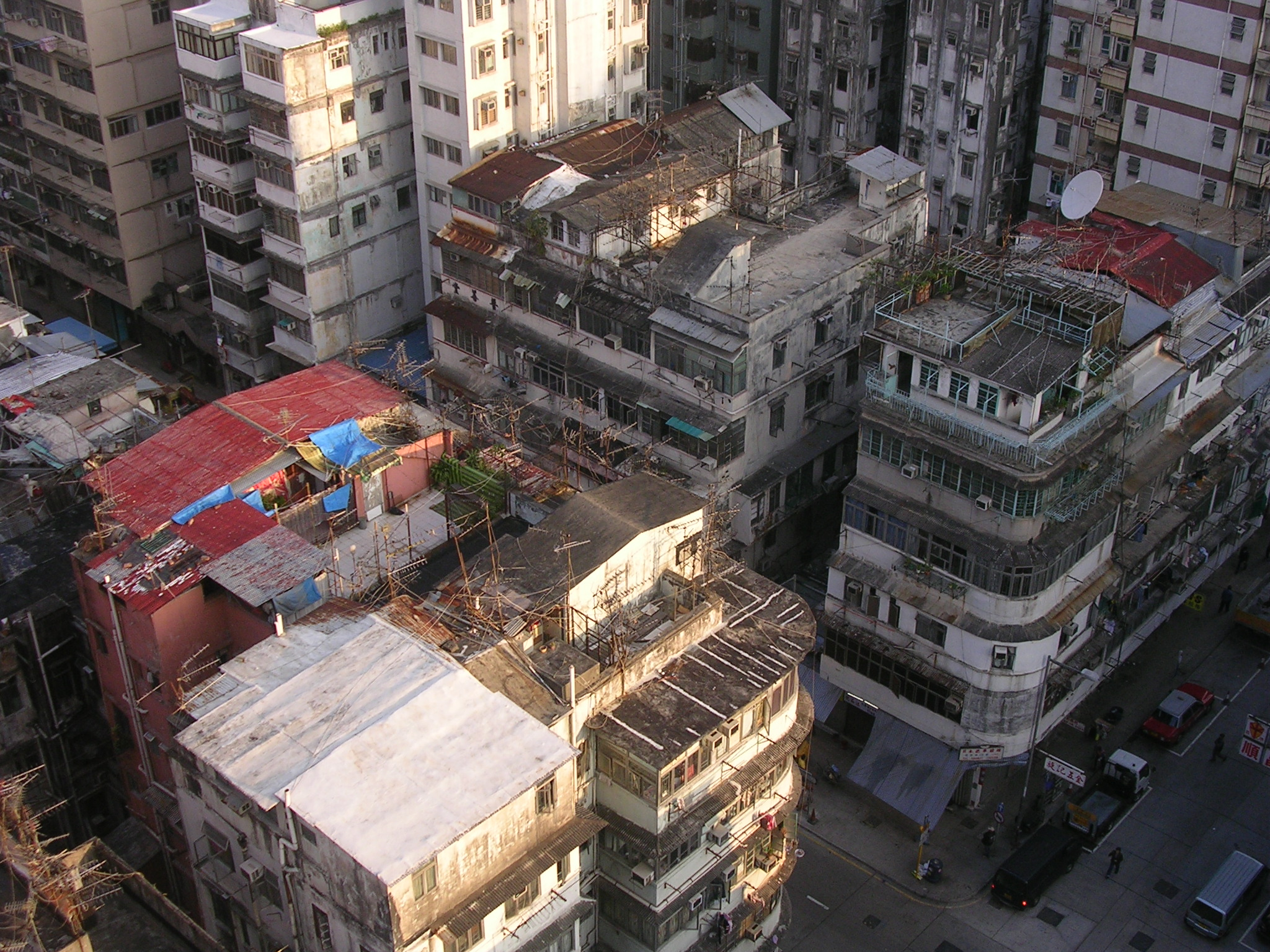 View of rooftops in Sham Shui Po (深水埗), Hong Kong. Taken from the top of a skyscraper.